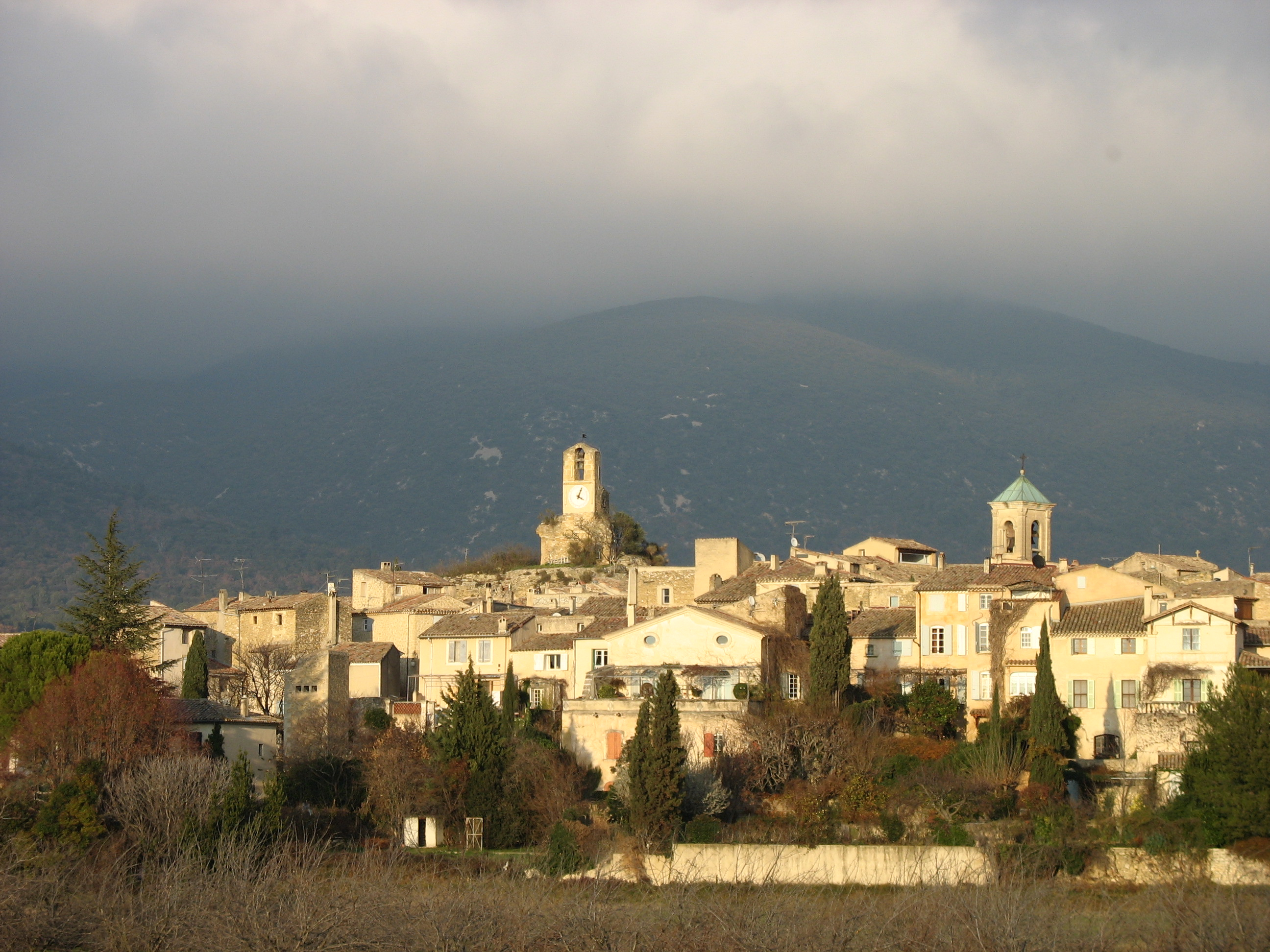 Lourmarin and Luberon from the south